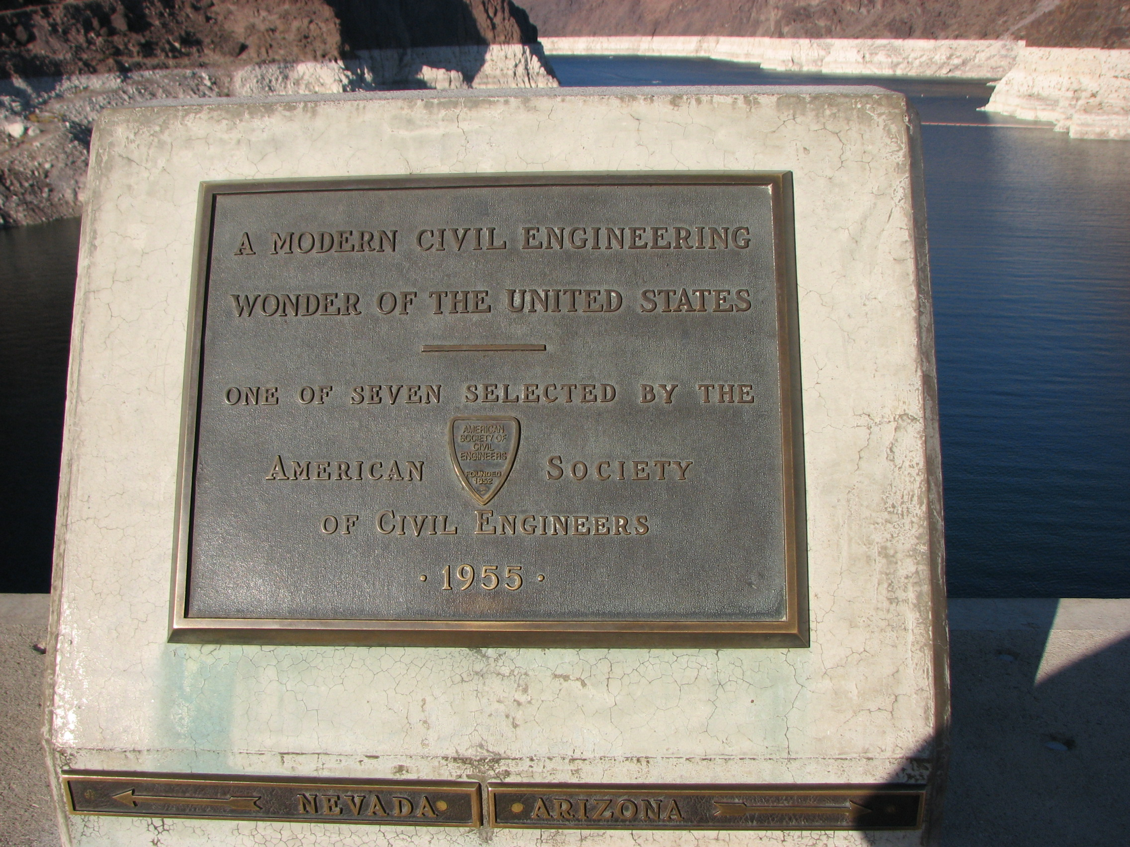 Hoover Dam notice